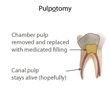 Pulpotomy in a deciduous (baby) tooth